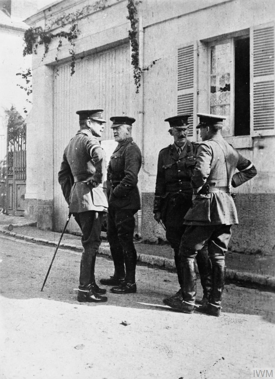 IWM caption : Lieutenant General Sir Douglas Haig, Commander of the British 1 Corps, confers with Major General Sir Charles Monro, commander of the 2nd Division in a street in France. Second from right is Brigadier General J Gough, Haig's chief of staff, talking to Brigadier General E M Perceval of the 2nd Division.